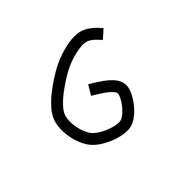 "6" less complex than multiple rollings-in